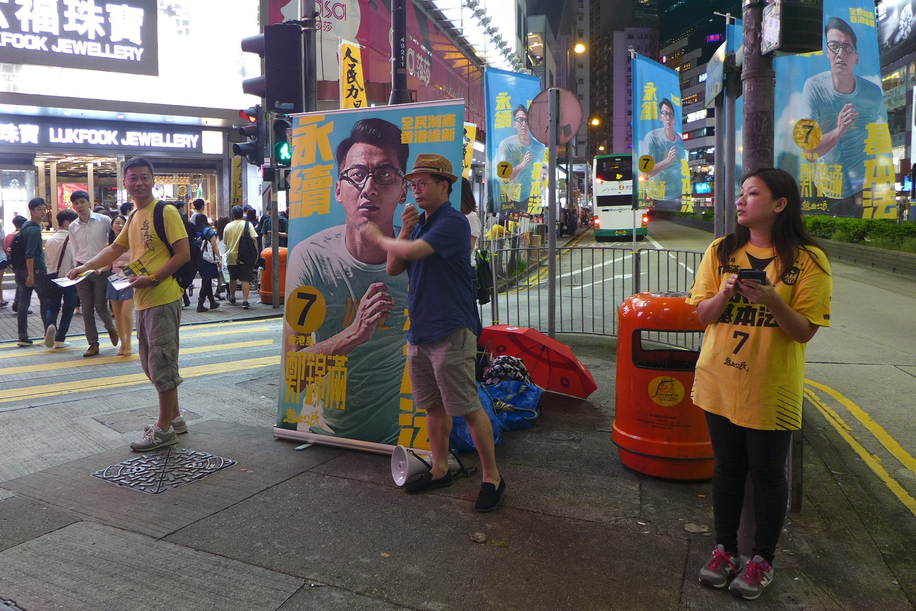 2016 Hong Kong legislative election Wan Chin promotion in CWB